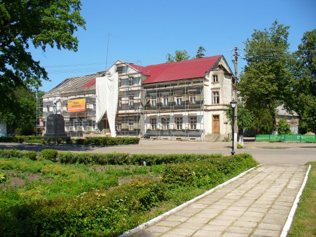 Krasnoznamensk - Administration of Rayon.Krasnoznamensk, Kaliningrad Oblast